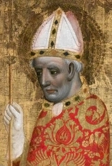 St. Adalbert of Prague from the Votive Painting of Archbishop Jan Očko of Vlašim. Inverse.